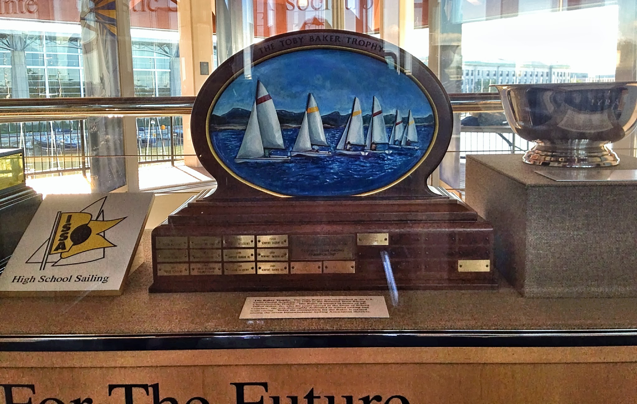 Photograph of the Baker High School Team Racing Championship trophy in the trophy case at the U.S. Naval Academy in Annapolis, MD.